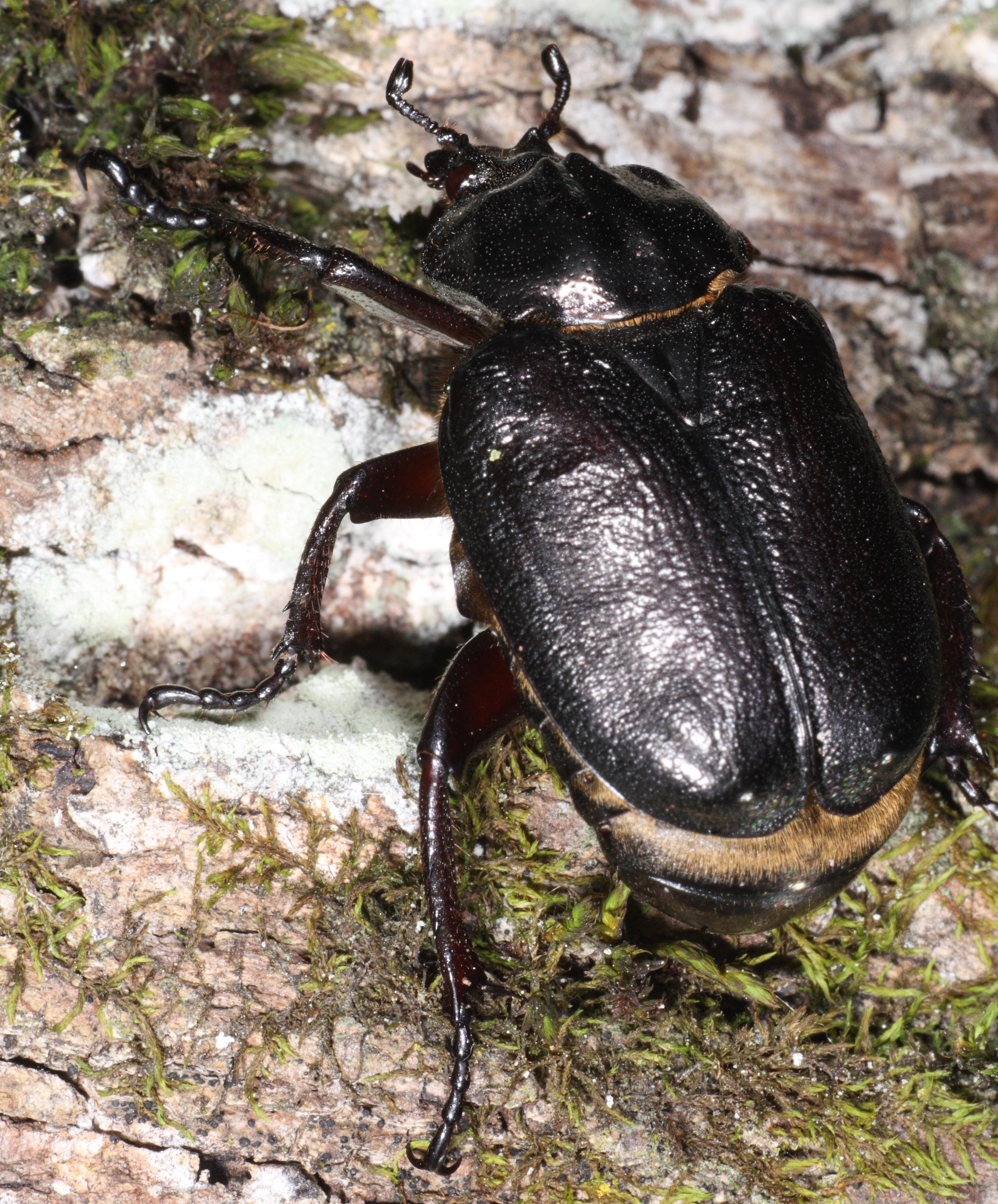 Male Osmoderma eremita trying to make a new colony